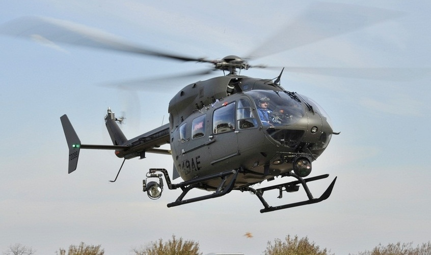 The U.S. Army unveils the Light Utility Helicopter UH-72A at the Pentagon in Washington, D.C.